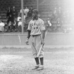 "Informal full-length portrait of Mendez, Cubans baseball player, holding a baseball bat, standing on a baseball field in Chicago, Illinois. A boy wearing a baseball uniform is walking in the background, and spectators are sitting in the grandstands."